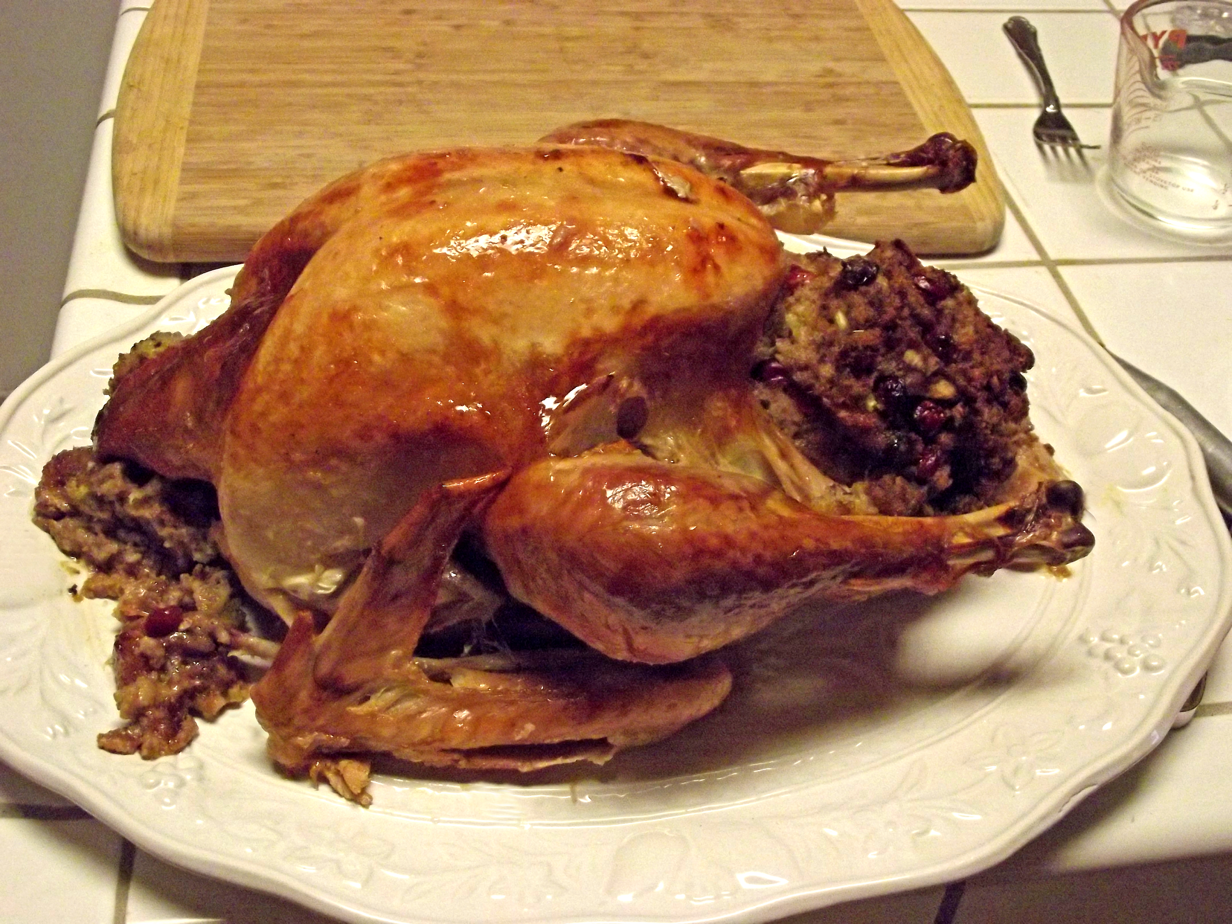 Roast Turkey on a plater.